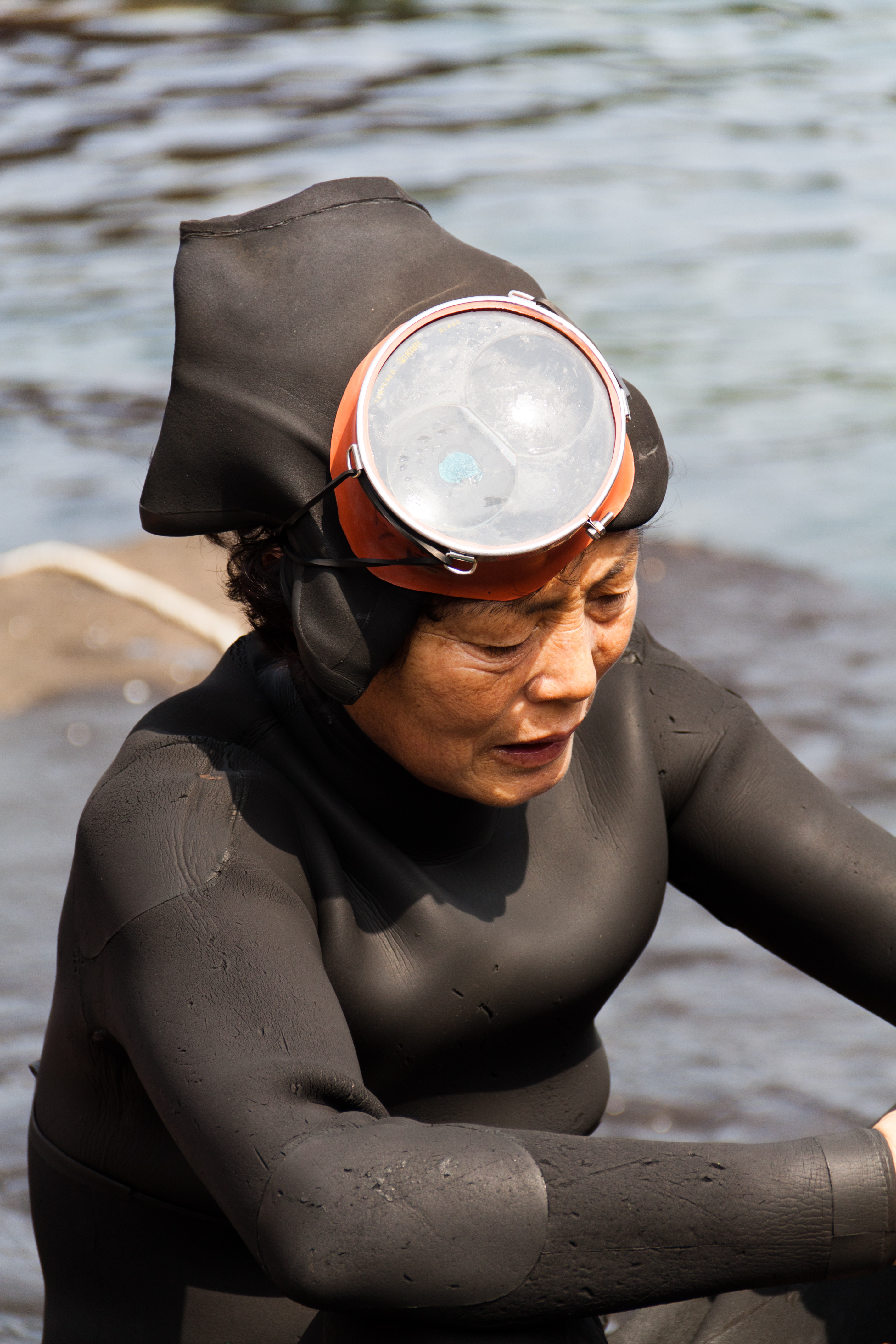 Hanyeo woman, Jeju